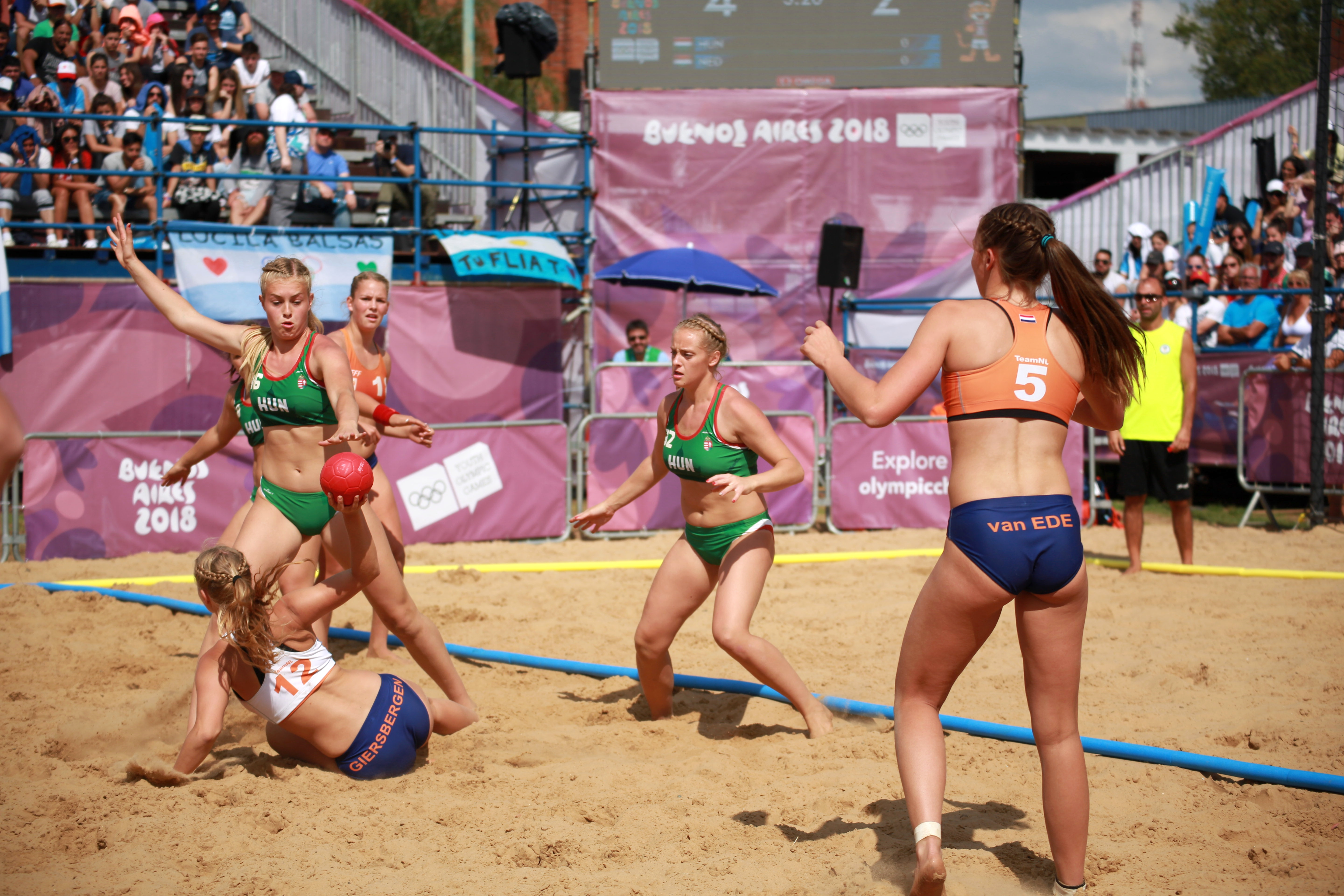 Beach handball at the 2018 Summer Youth Olympics in Buenos Aires at 13 October 2018 – Girls Bronze Medal Match – Hungary-Netherlands 2:0